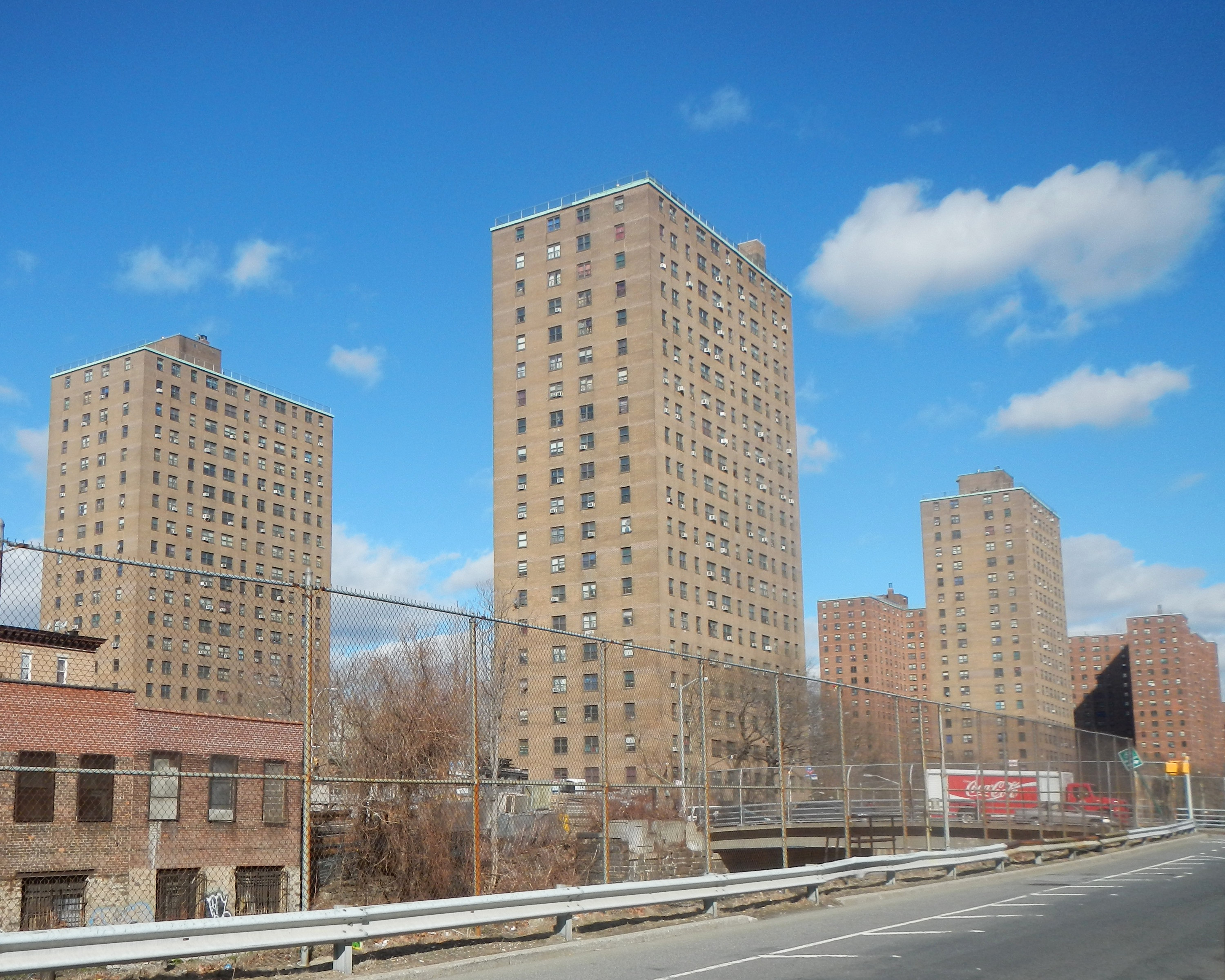 Looking north across Park Avenue and 168th Street at Webster Houses on a mostly sunny late morning.